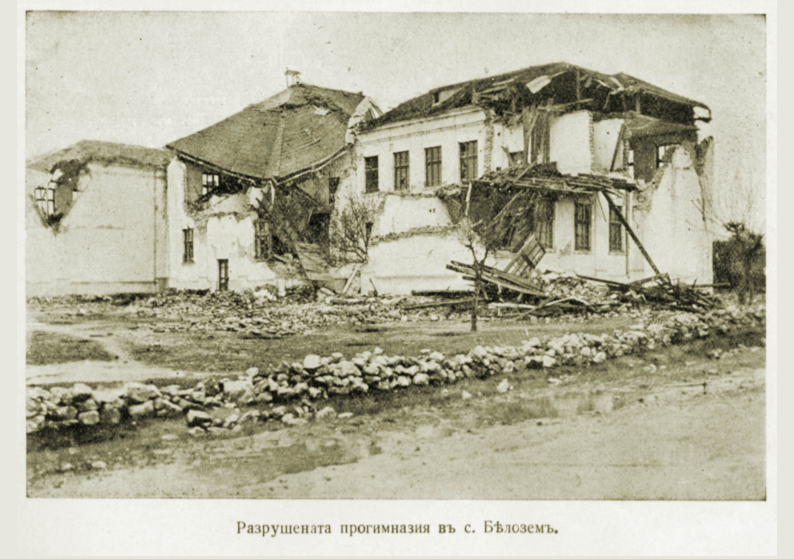 Old secondary-school in Belozem, 1928